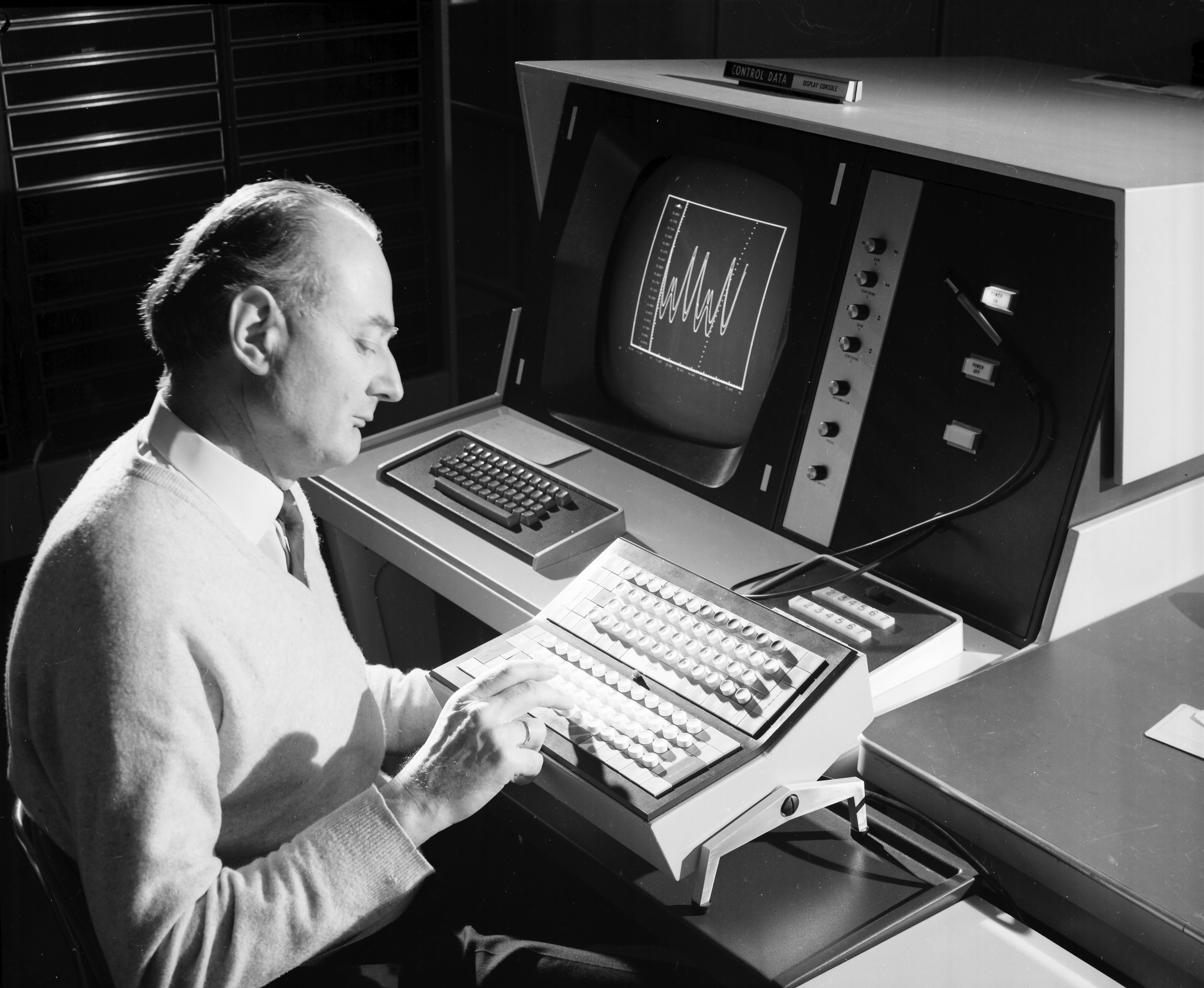 Rolf Hagedorn working at a computer terminal at CERN, 1968.